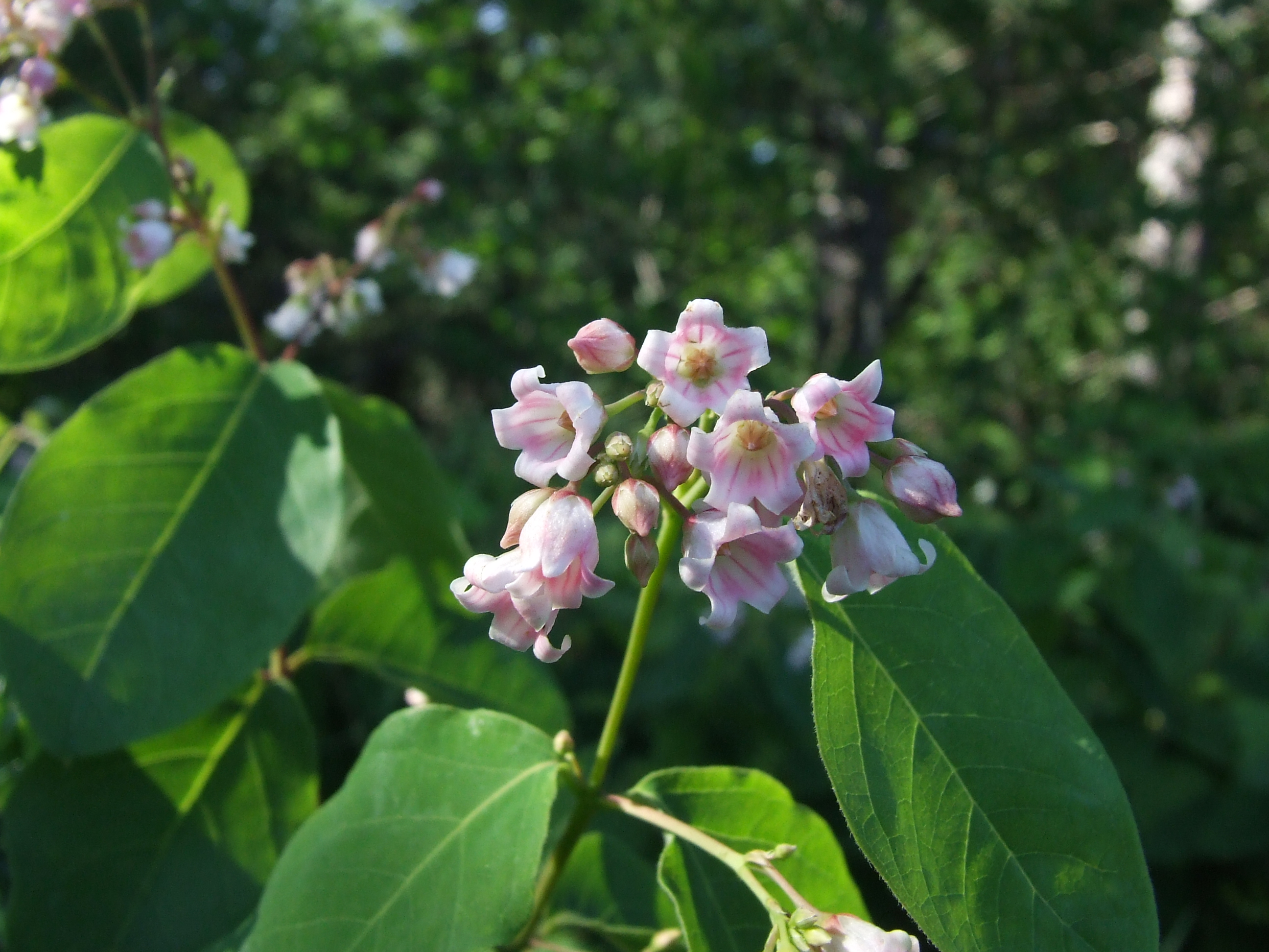 Spreading dogbane flowers